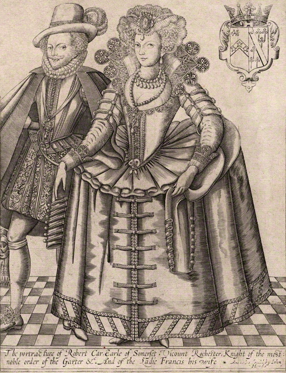 Portrait of Robert Carr, 1st Earl of Somerset, and his wife, Frances Carr, Countess of Somerset